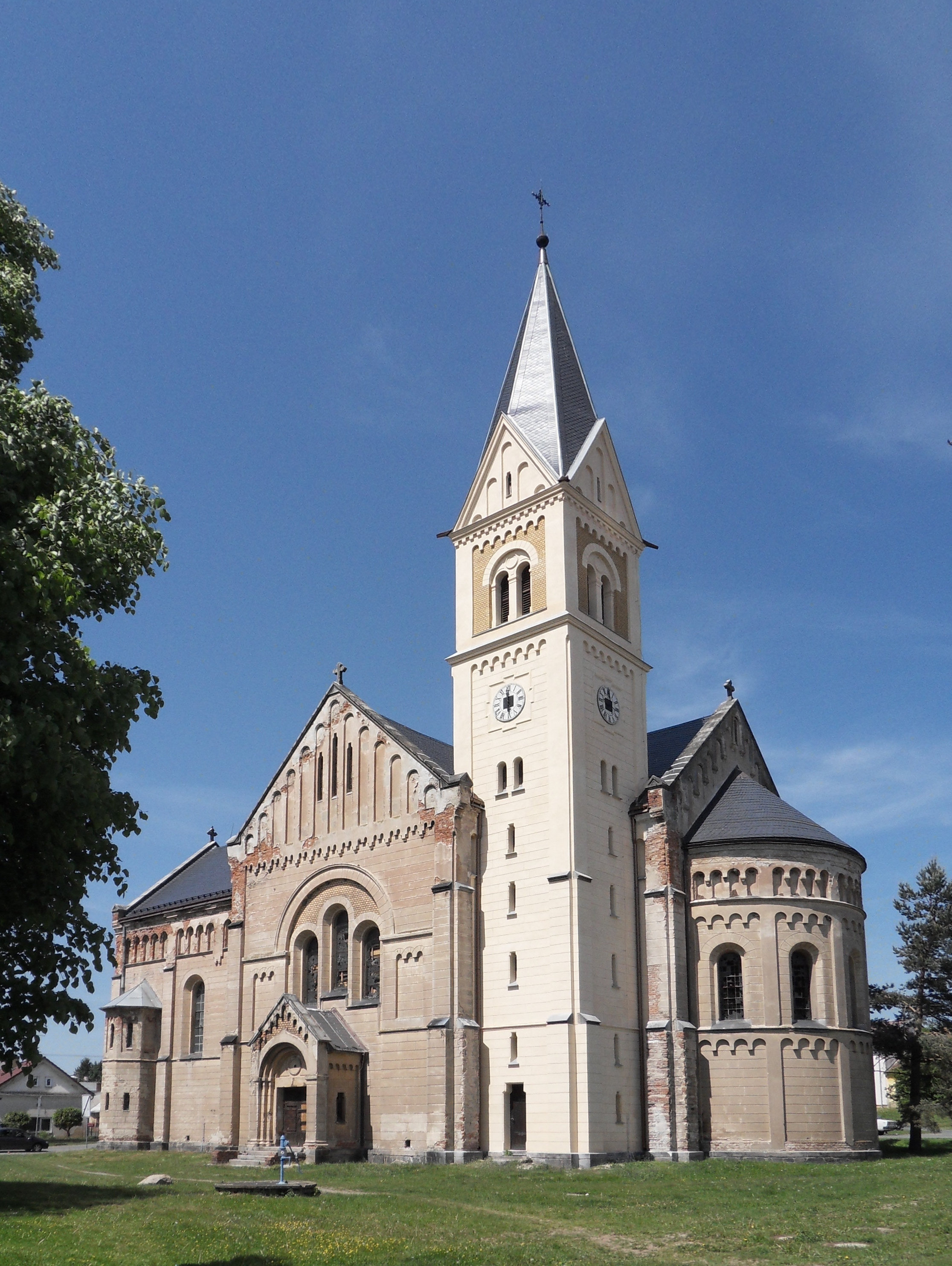 Saint Joseph church in Úherce, Plzeň-sever District, Czech Republic